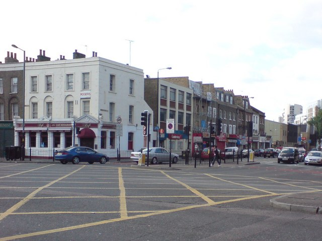 Corner of Burdett Road and Commercial Road, E14 Burdett Road is ahead, Commercial Road is to the left.